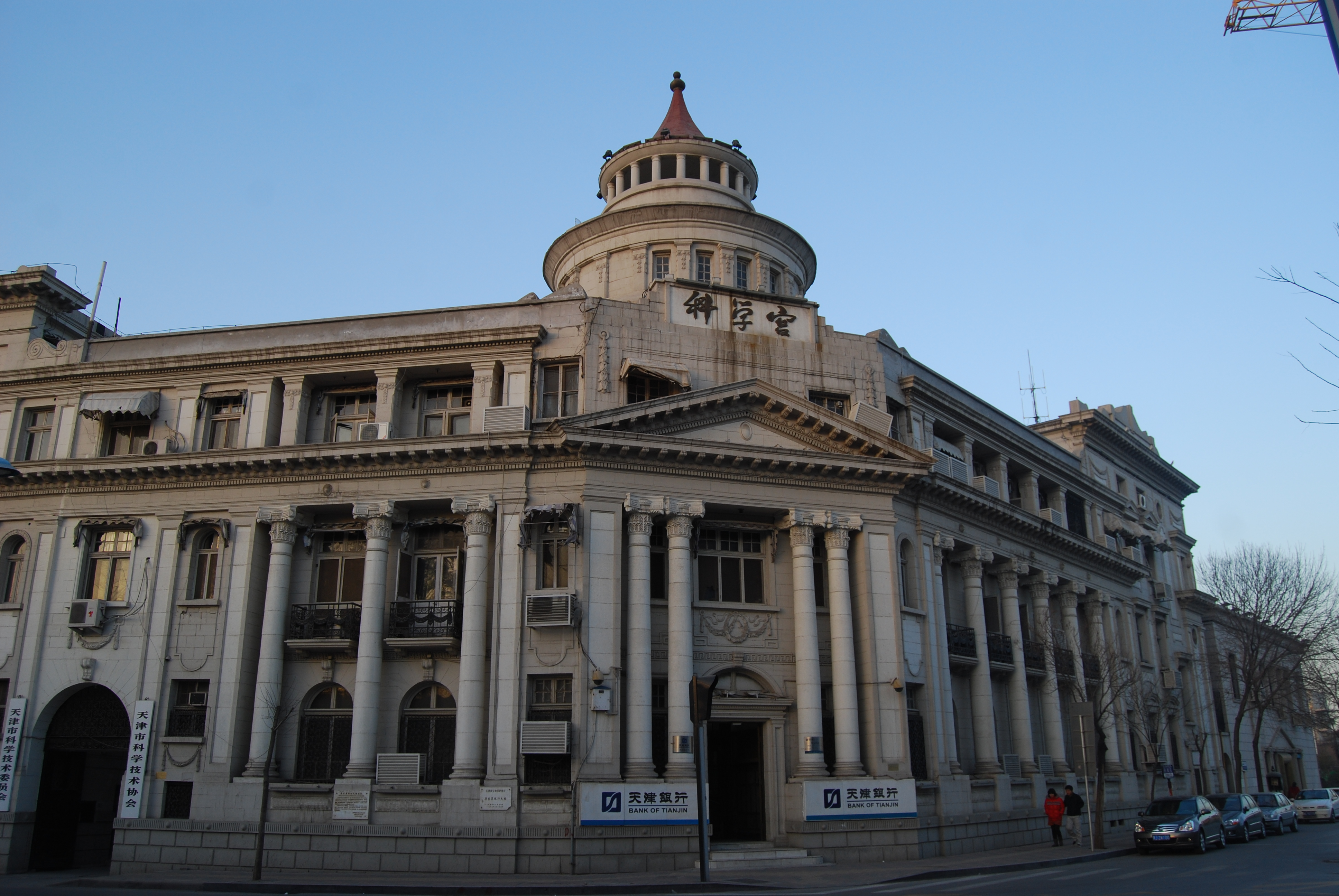 Former Tung Lai Bank building in Chengde Dao No. 287, Heping District, Tanjin